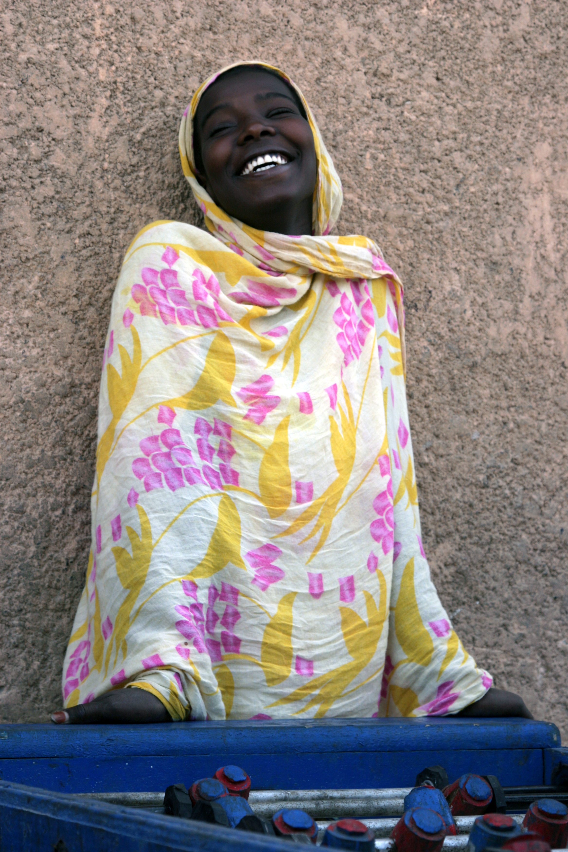 Mauritania, September 2008 Girl enjoying a game of table football.